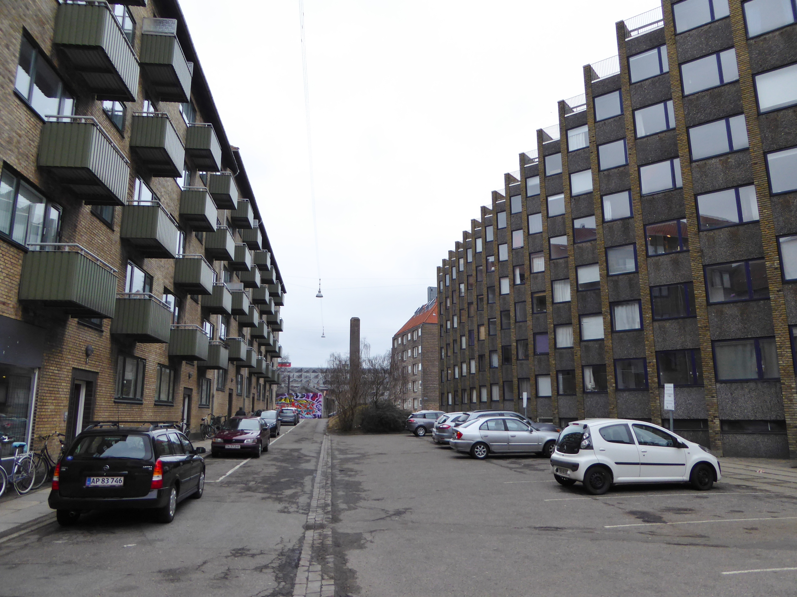 The street Eddagården in Nørrebro in Copenhagen.